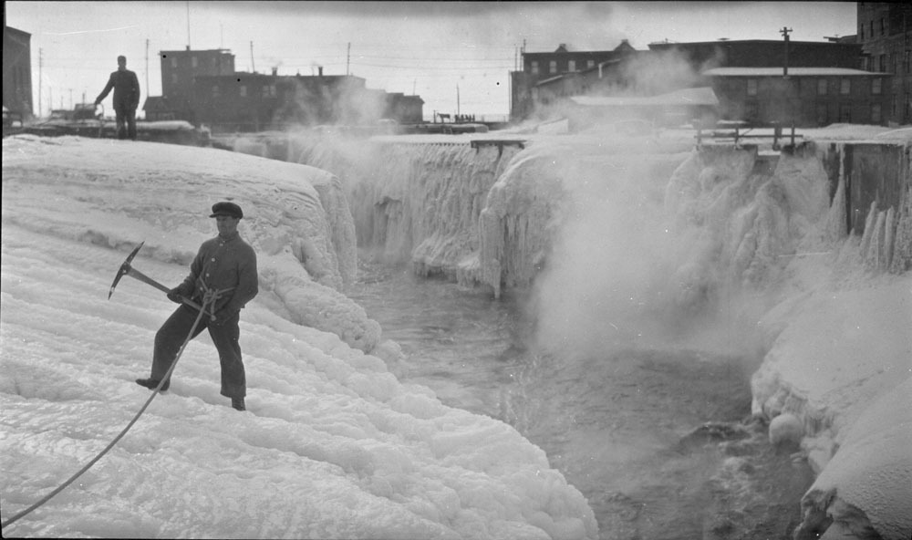 Men picking ice at the Chaudière Falls, Ottawa